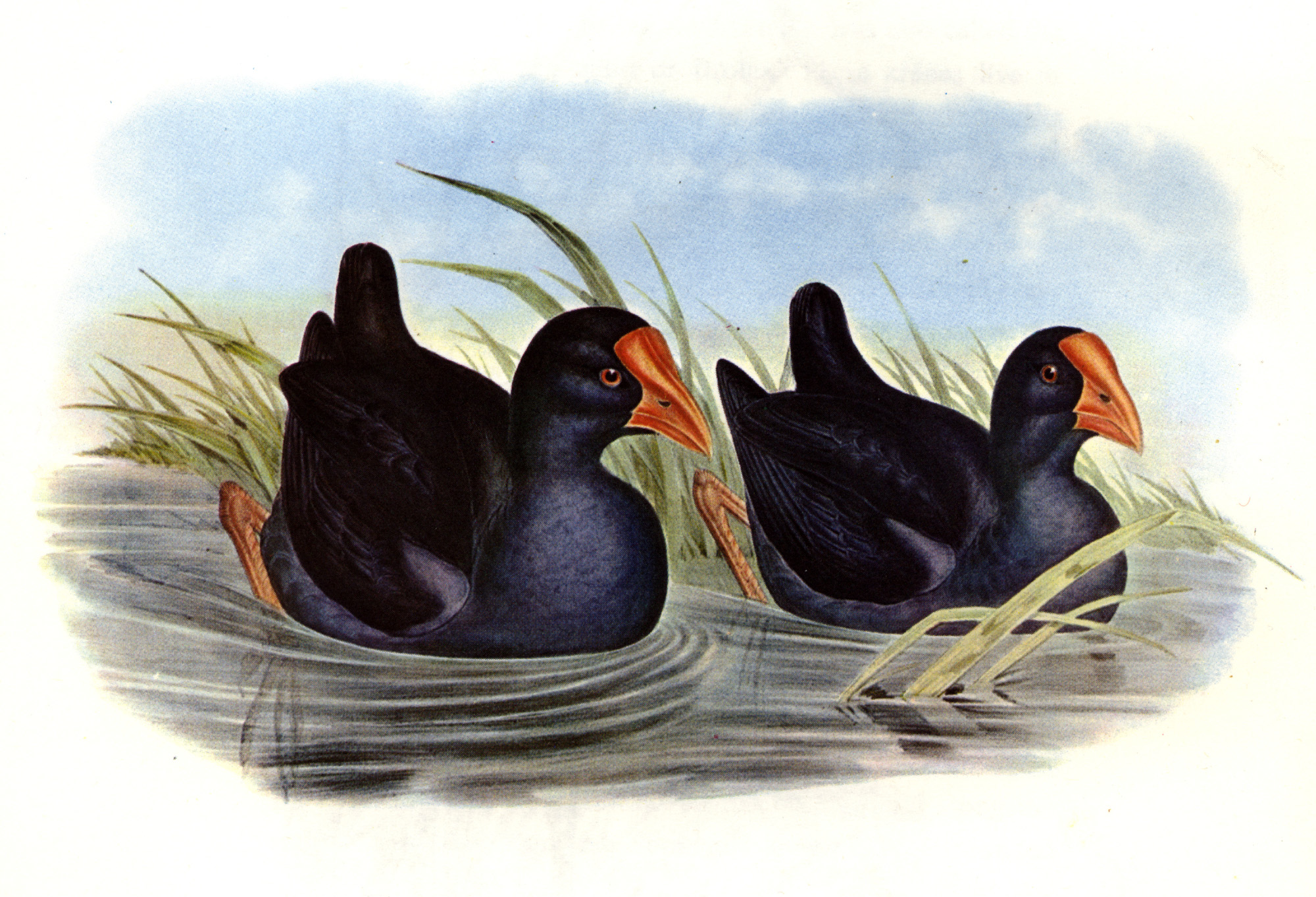 Porphyrio porphyrio melanotus (Swamp hen)